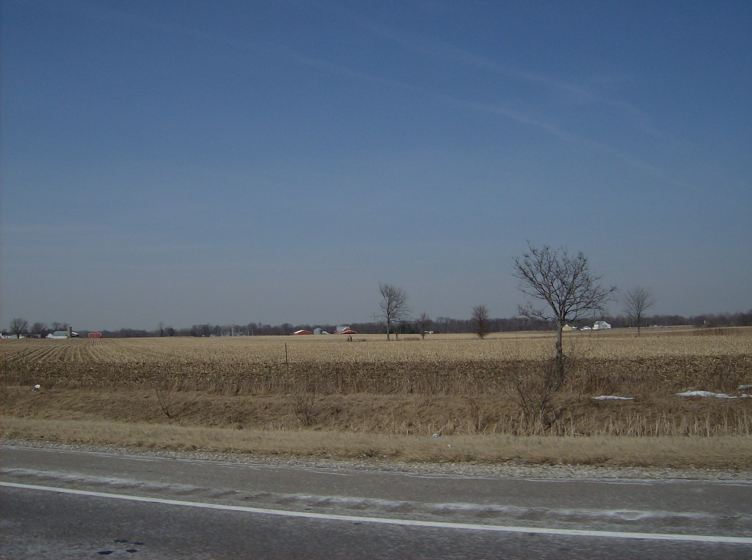 Farmland in Millcreek Township, Union County, Ohio, United States, taken from U.S. Route 33